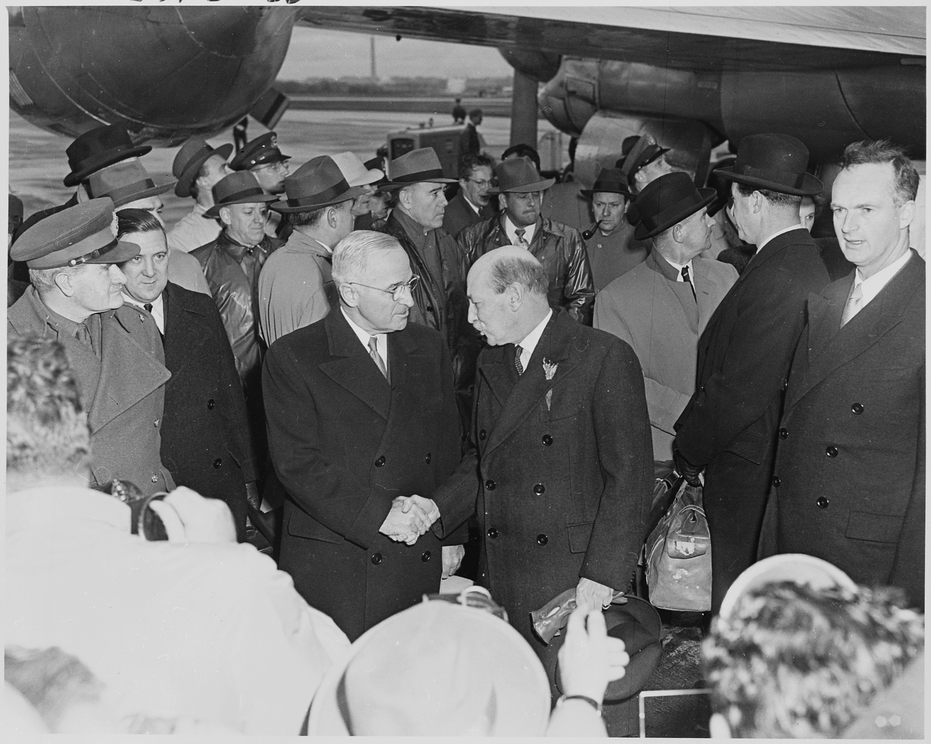 President Harry S. Truman (foreground, left) greeting British Prime Minister Clement Attlee (foreground, right) at Washington National Airport, upon Attlee's arrival for talks on the Korean crisis. Also present is Sir Oliver Franks, British Ambassador to the United States (right), and Field Marshal Sir William Slim (left), the Chief of the Imperial General Staff